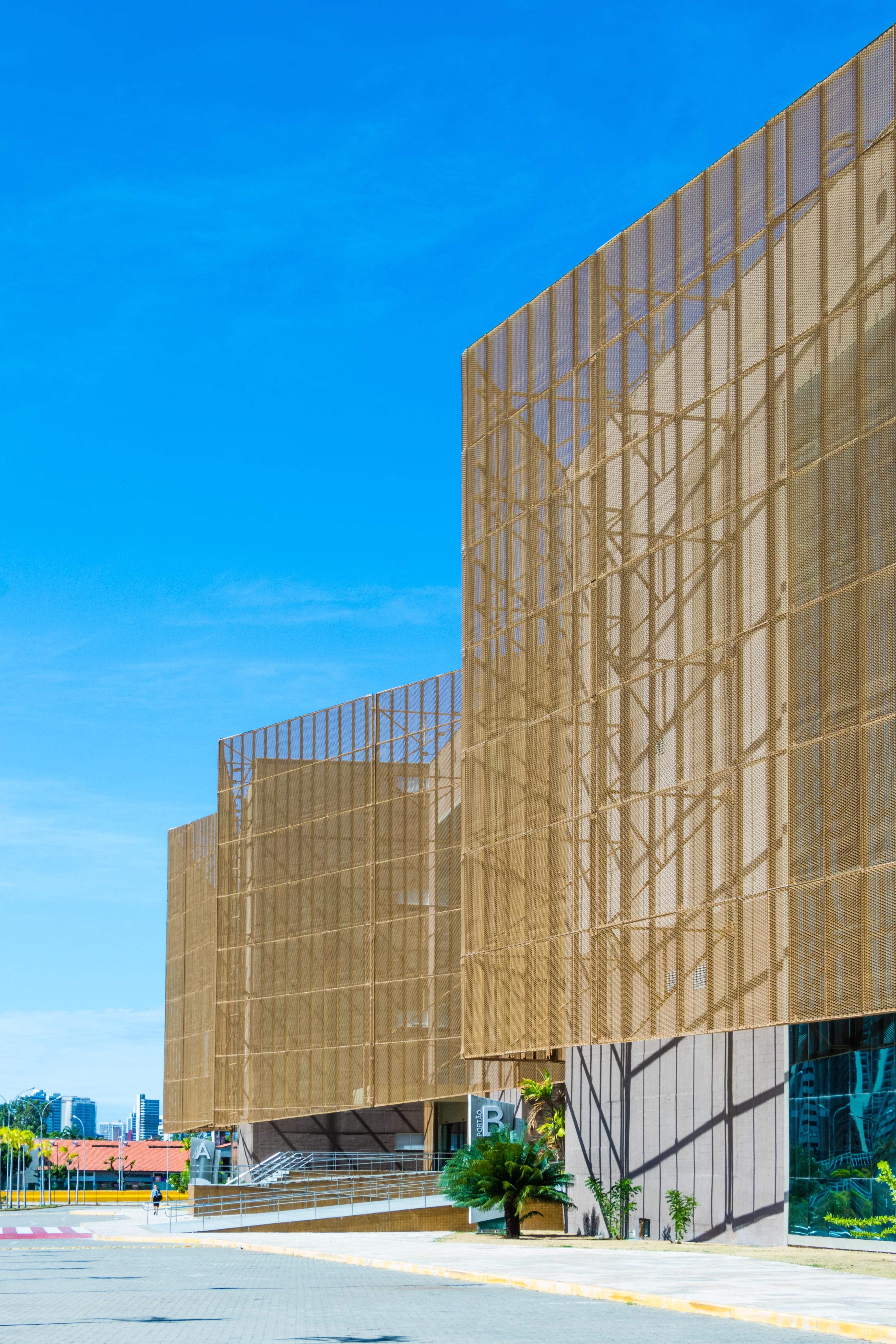 Centro de Eventos do Ceará, Fortaleza, Ceará, Brazil.